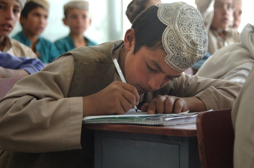 School Back in Session, an Afghan student takes copious notes.